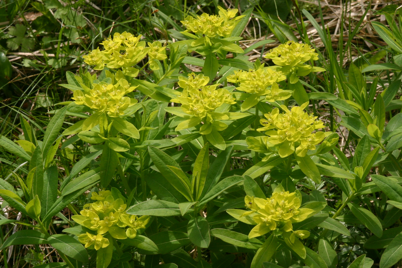 Euphorbia austriaca